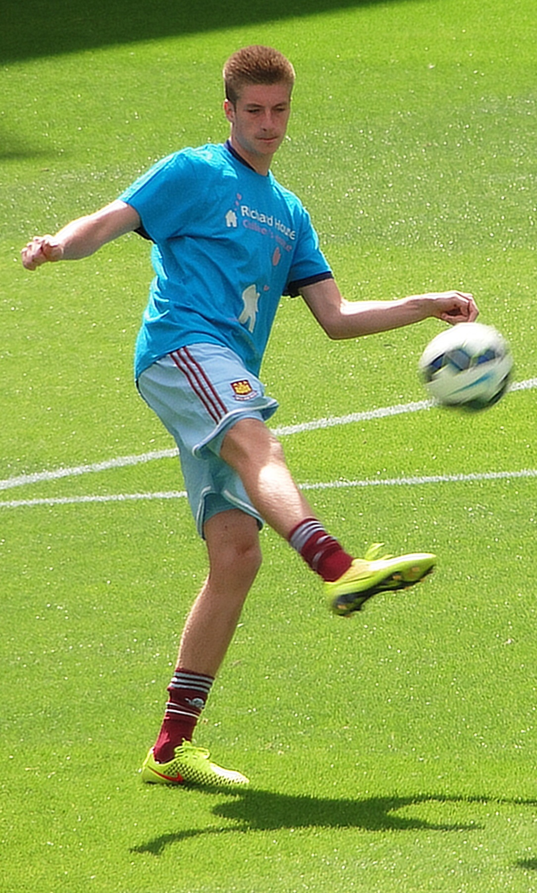 West Ham United's Reece Burke warming up at the Boleyn Ground before their game against Tottenham Hotspur, August 2014.